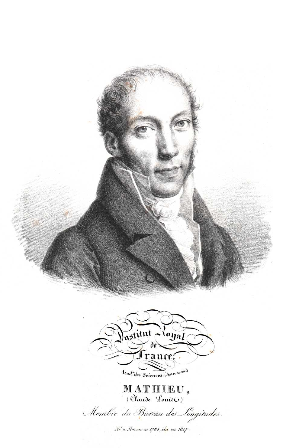 Der französische Astronom und Mathematiker Claude Louis Mathieu (1783-1875)